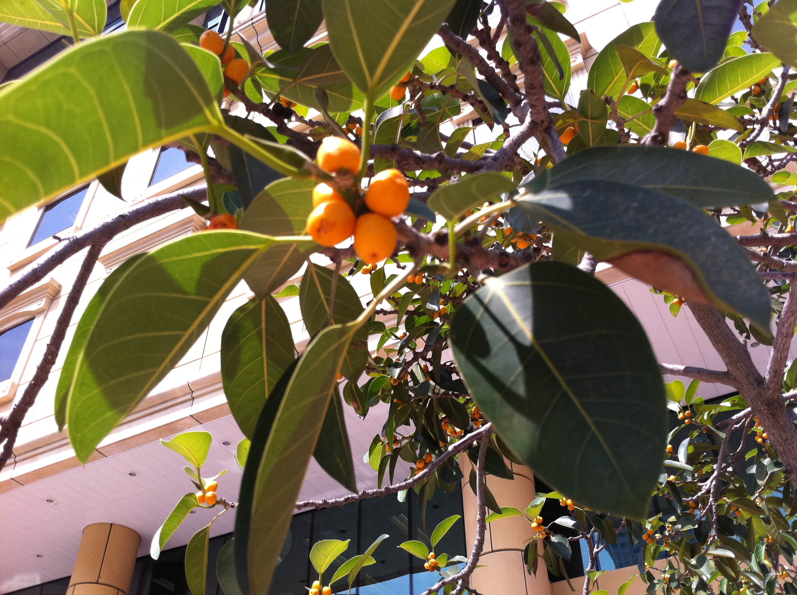 高山榕, Trees in Hong Kong Central Library terrace, Causeway Bay, Hong Kong